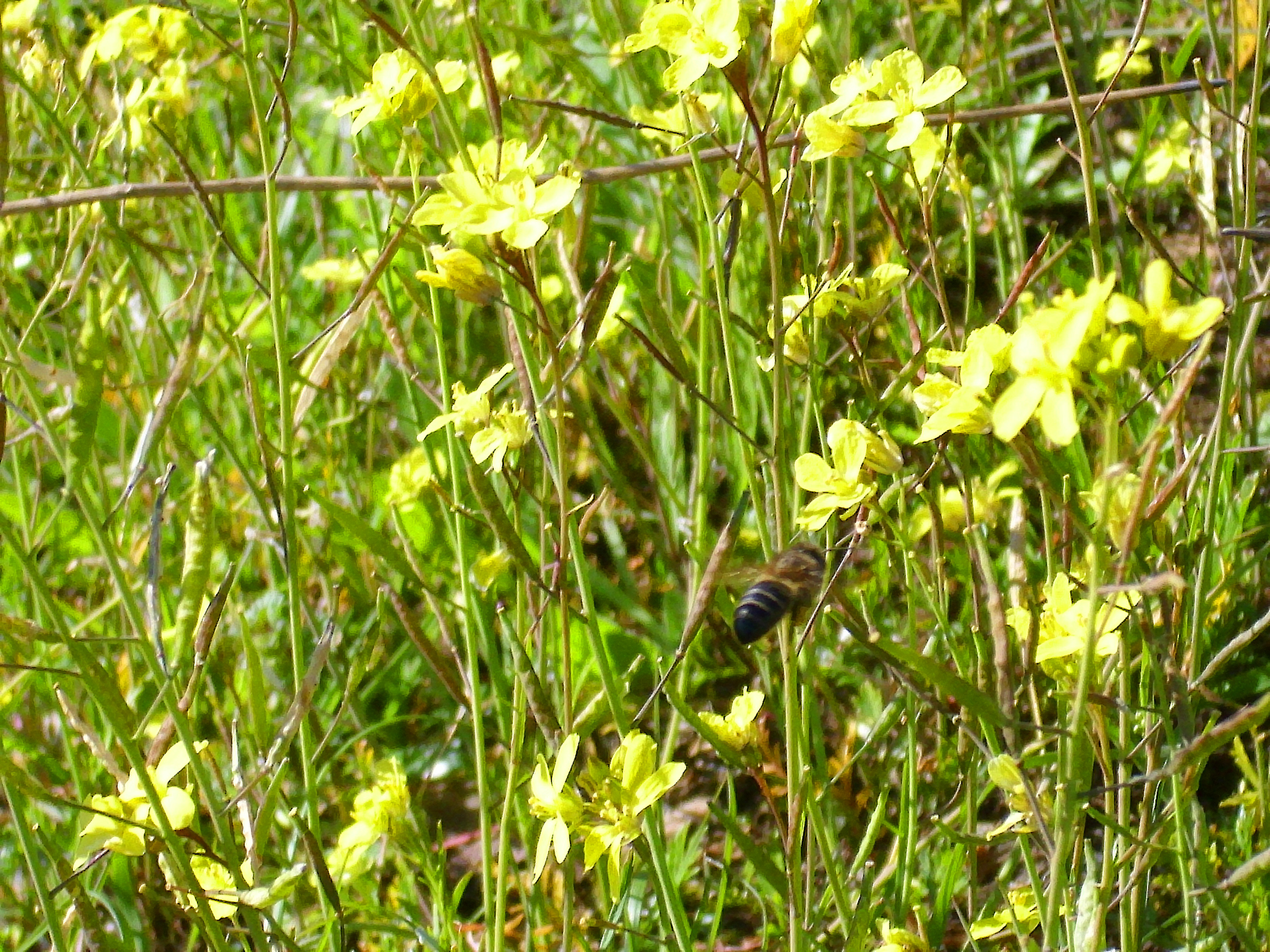 Diplotaxis virgata habit, Sierra Madrona, Spain